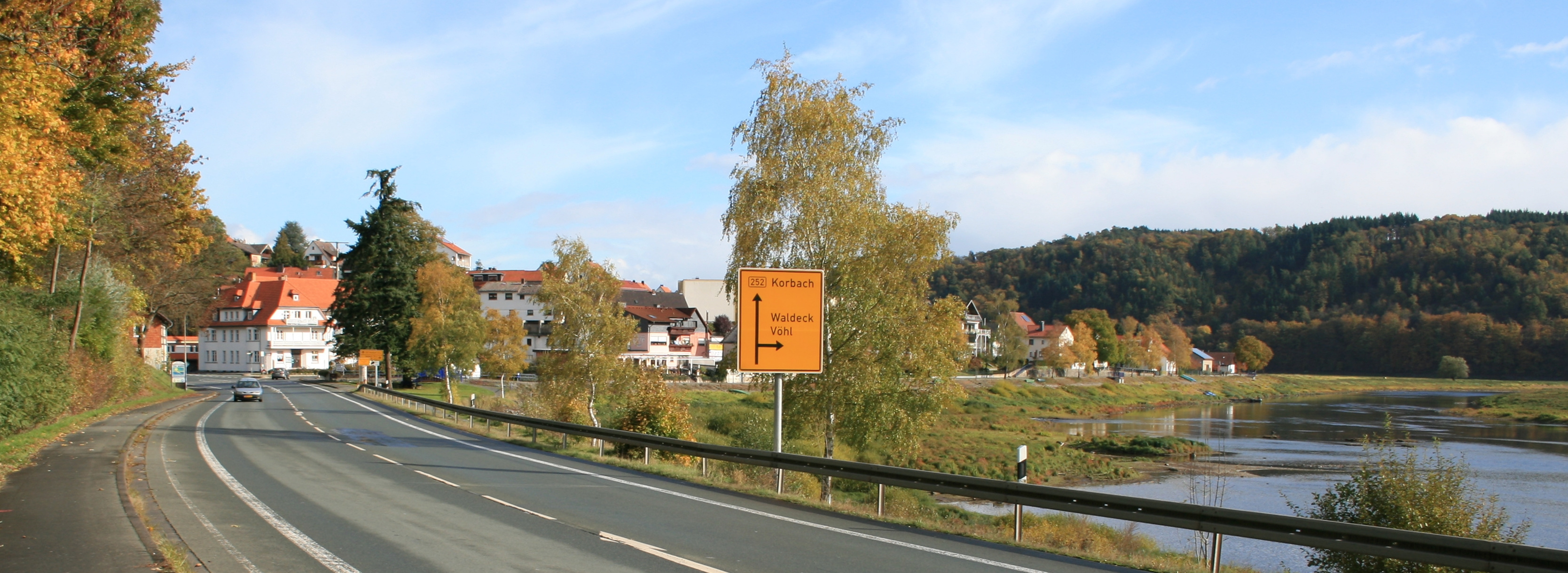 Village Herzhausen, community of Vöhl, in northern Hesse, Germany; southern entry into village (Itterstraße, B 252), with the Eder river and the upper end of the Edersee reservoir during autumnal low water season.